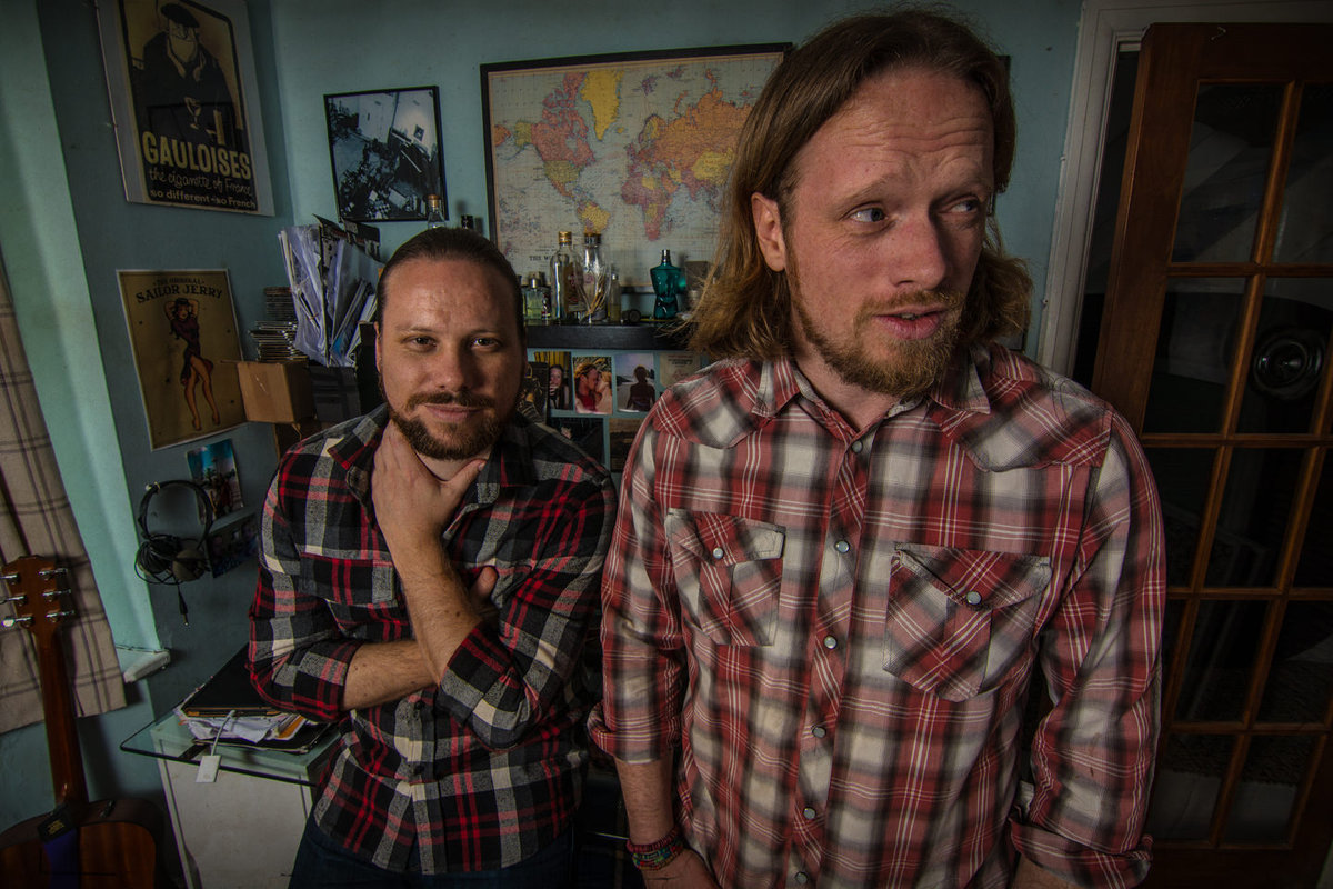 Promotional photo for Junkyard Choir Taken 2017 by Russ Williams [RCW Photography]